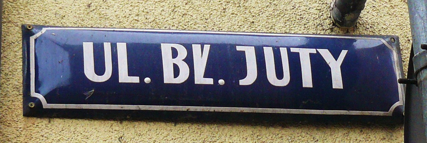 Juta Street, Chełmża, Poland.